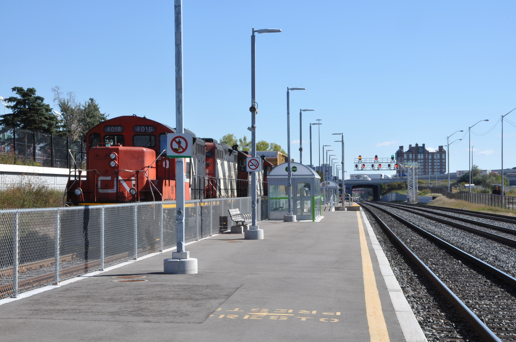 Shunter using the freight siding behind the platform at Etobicoke North GO station.